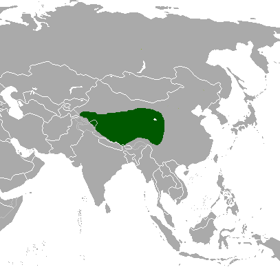 Range map of the Tibetan gazelle (Procapra picticaudata) according to: Mallon, D.P. & Bhatnagar, Y.V. 2008. Procapra picticaudata. In: IUCN 2012. IUCN Red List of Threatened Species. Version 2012.1. . Downloaded on 30 July 2012.